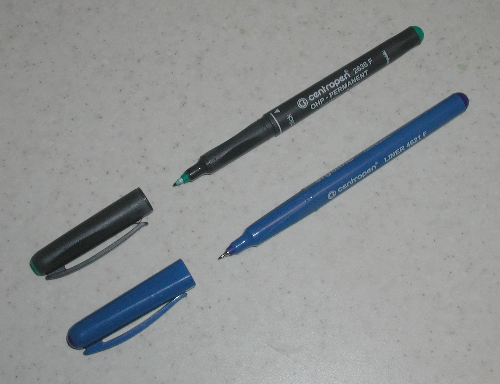 marker pens made by Czech company Centropen